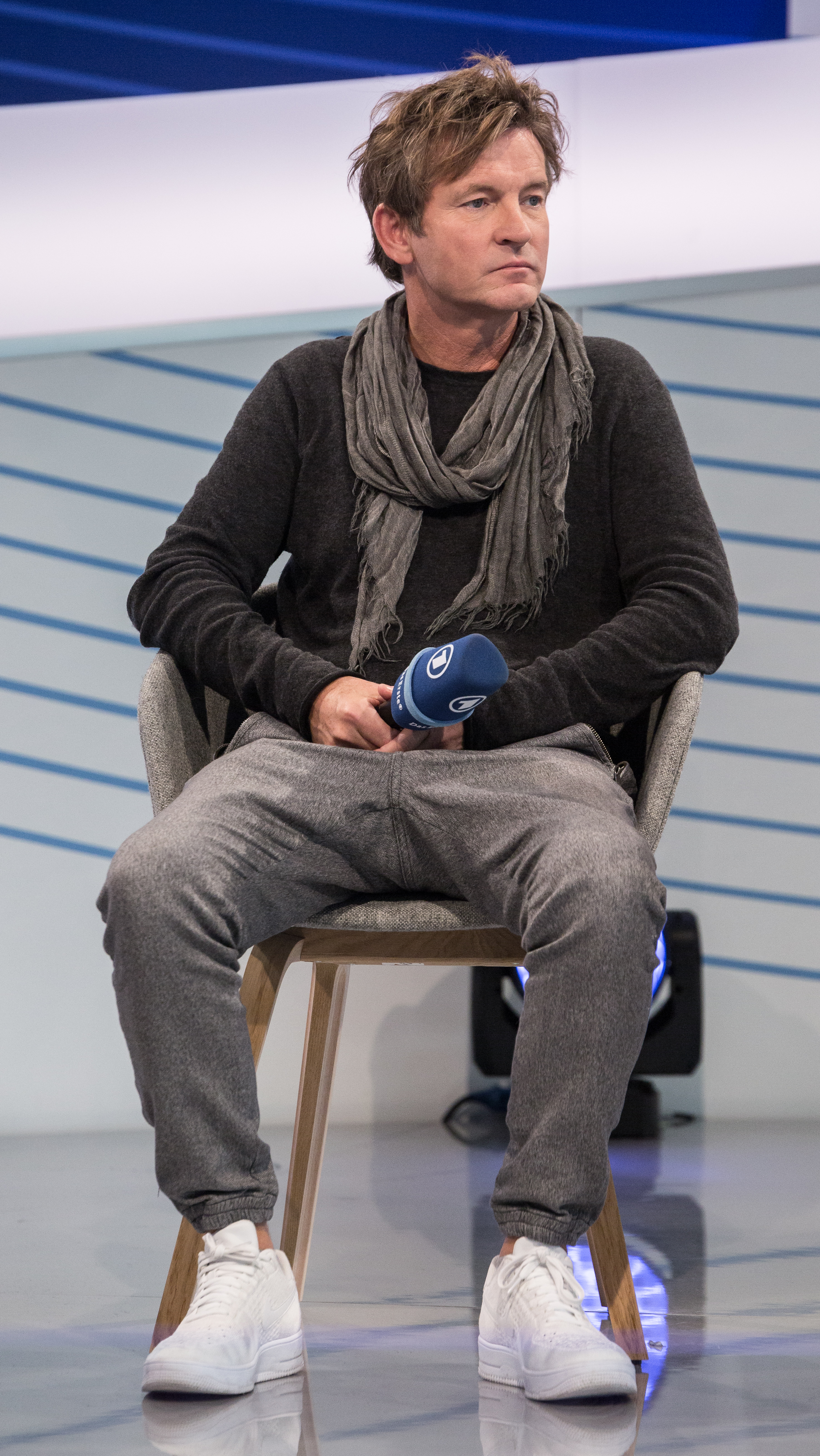 Philipp Moog at the Frankfurt Book Fair 2017